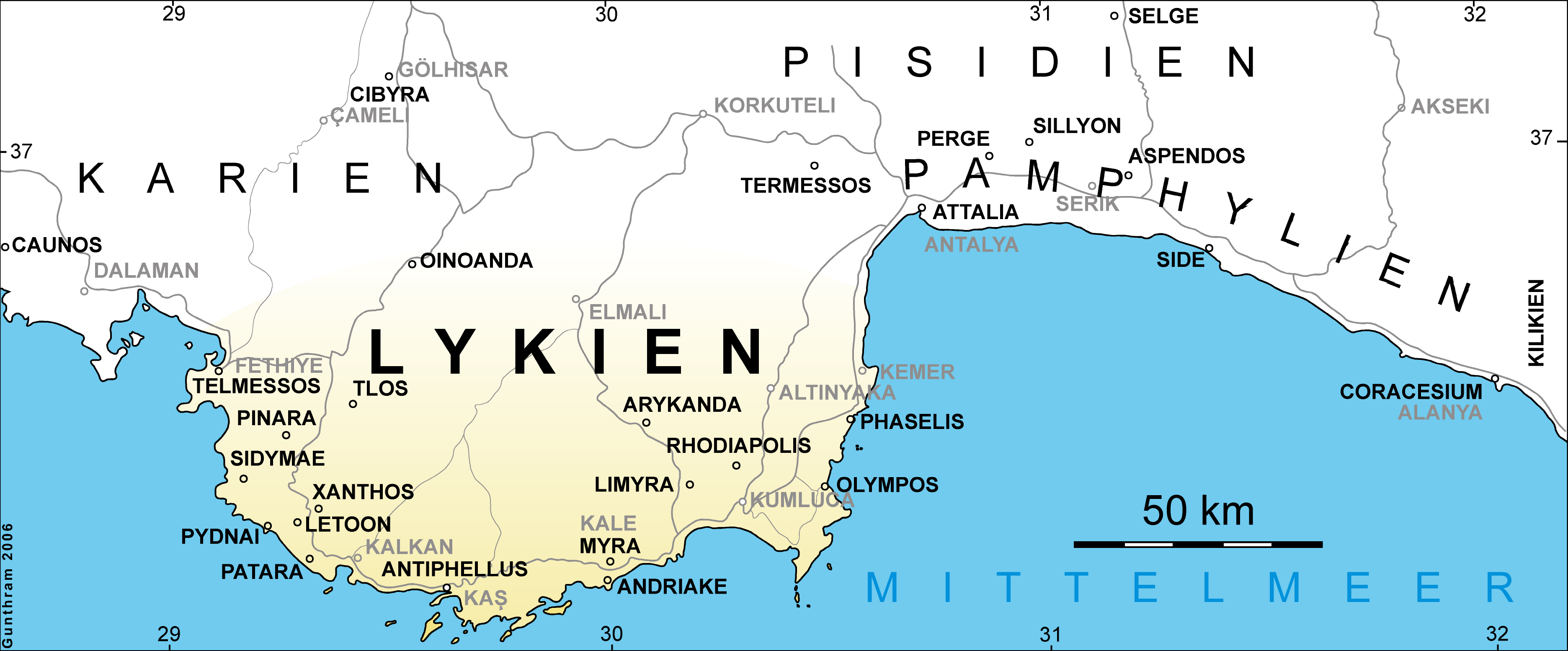 Ancient Cities of Lycia (modern places in grey)